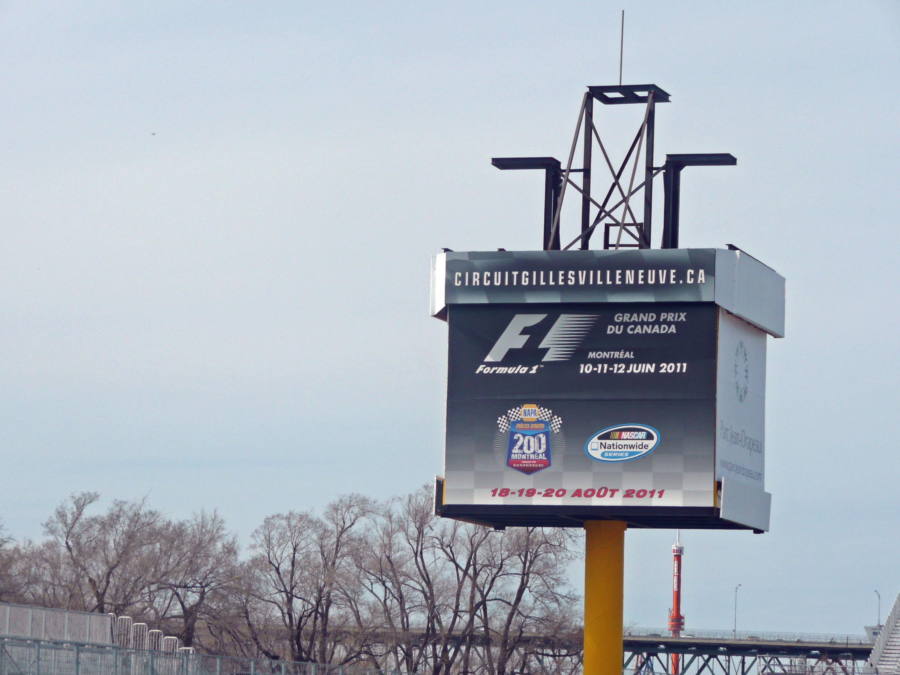 Displays of the 2011 Canadian Grand Prix